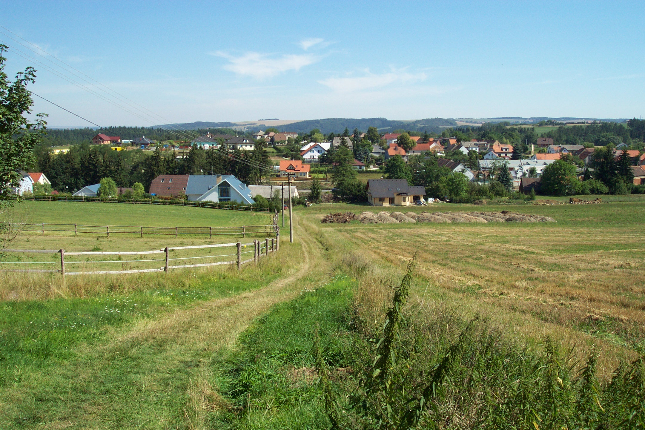 Smědčice village in Rokycany district near Plzeň, CZ